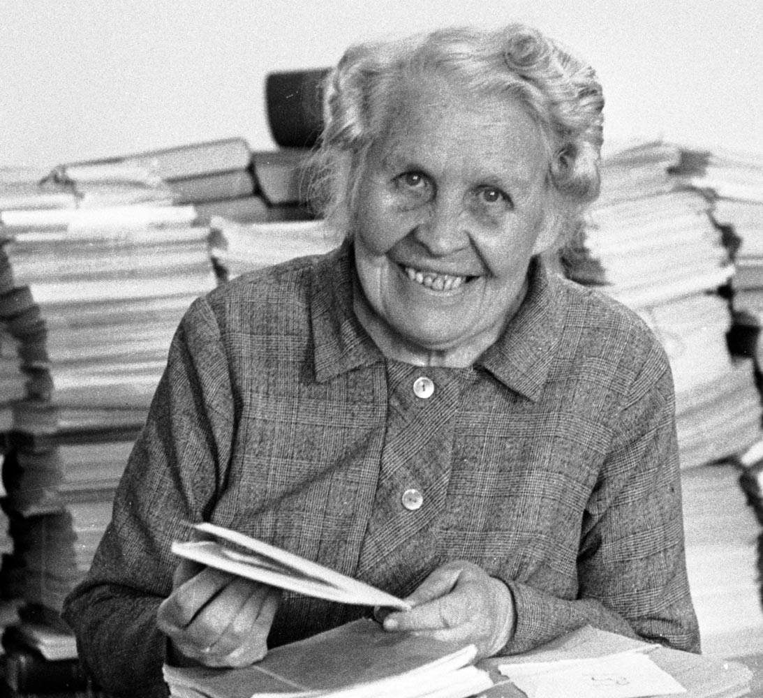 Swedish bothanist Vivi Täckholm, professor at Kairo university, photographed in her office in 1969. She developed a modern, well equiped institution with enthusiasm, hard work and economic assistance from among others Sweden. Photo: Staffan Norstedt 1969. If the photo is used outside Wikipedia, "Photo: Staffan Norstedt" or the equivalent in the relevant language shall be indicated next to it.